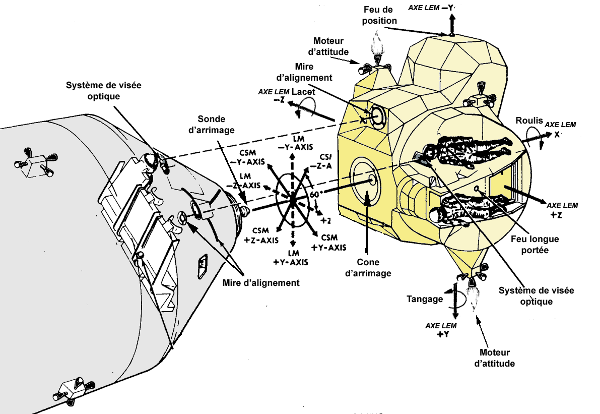 Rendezvous manoeuver between Apollo Lunar Module and CSM